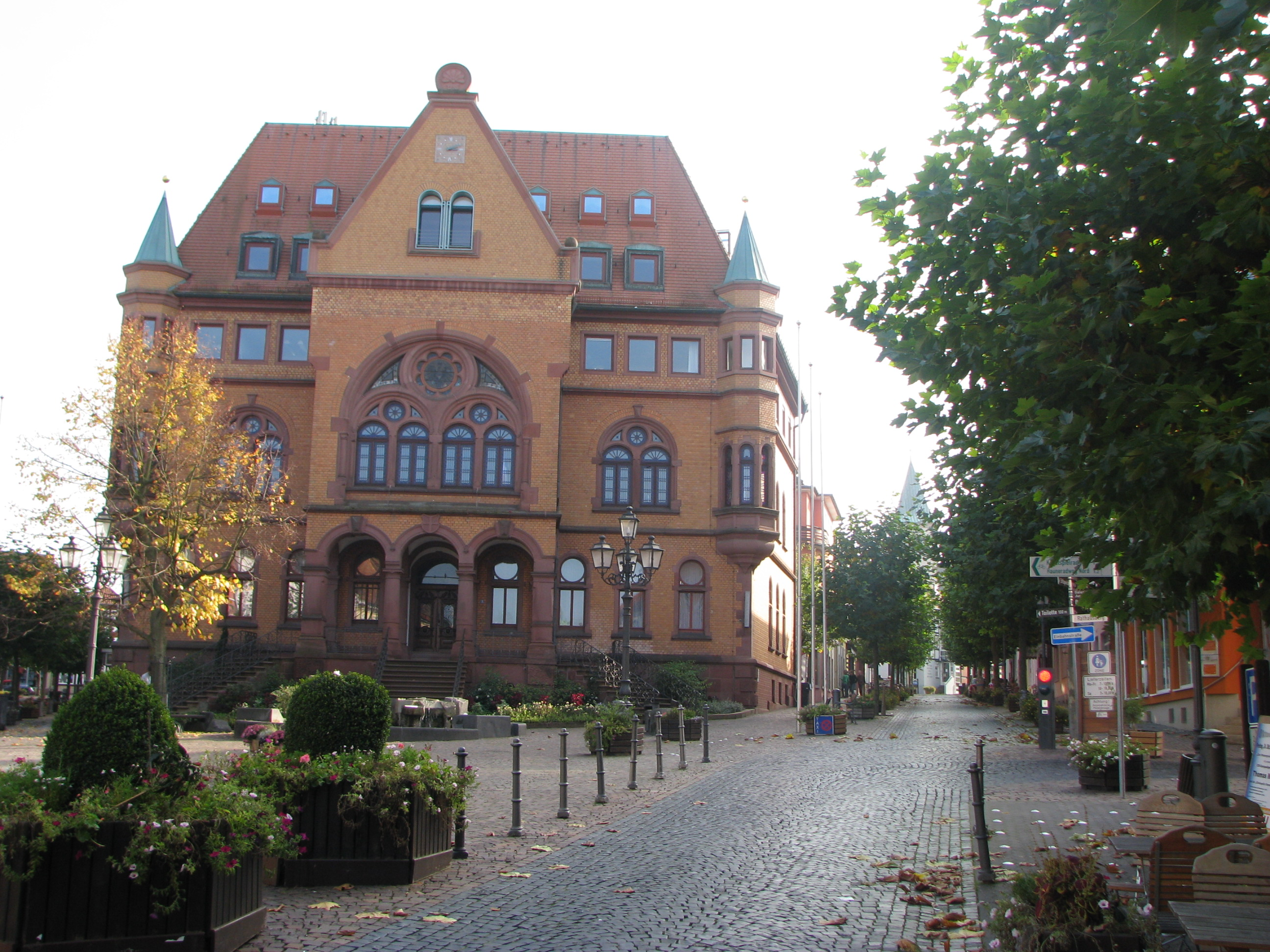 City Hall (Rathaus) at the Rathausberg in Hünfeld (Germany) in Autumn